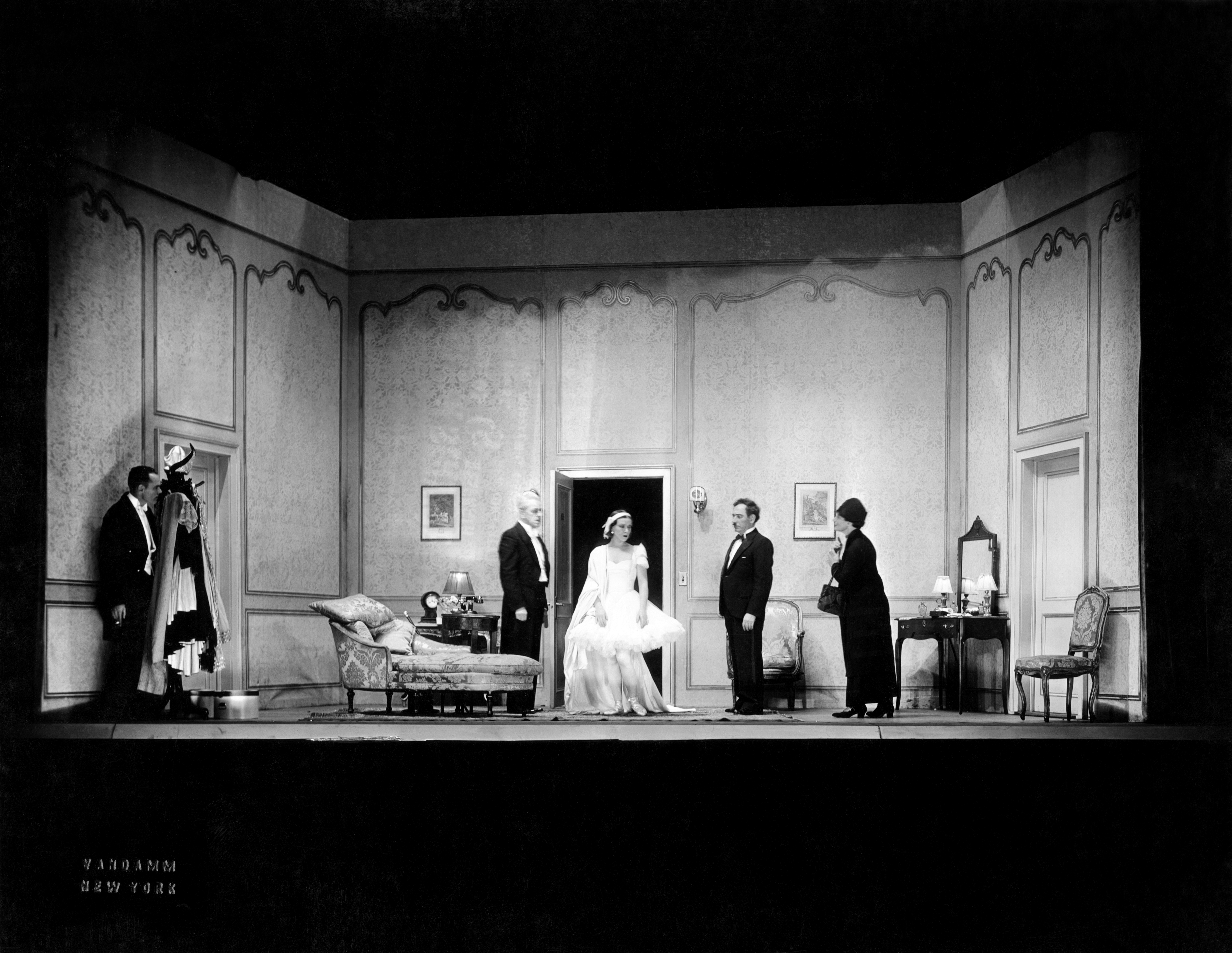 Promotional photograph of the original Broadway production of Grand Hotel (1930) Note on reverse side of original photograph reads as follows: "Grand Hotel" Act I – Scene 7 "I wish to be alone" Cast from left: Henry Hull (Baron von Gaigern), William Nunn (Meierheim), Eugenie Leontovich (Grusinskaia), Lester Alden (Witte), Raffaela Ottiano (Suzanne)